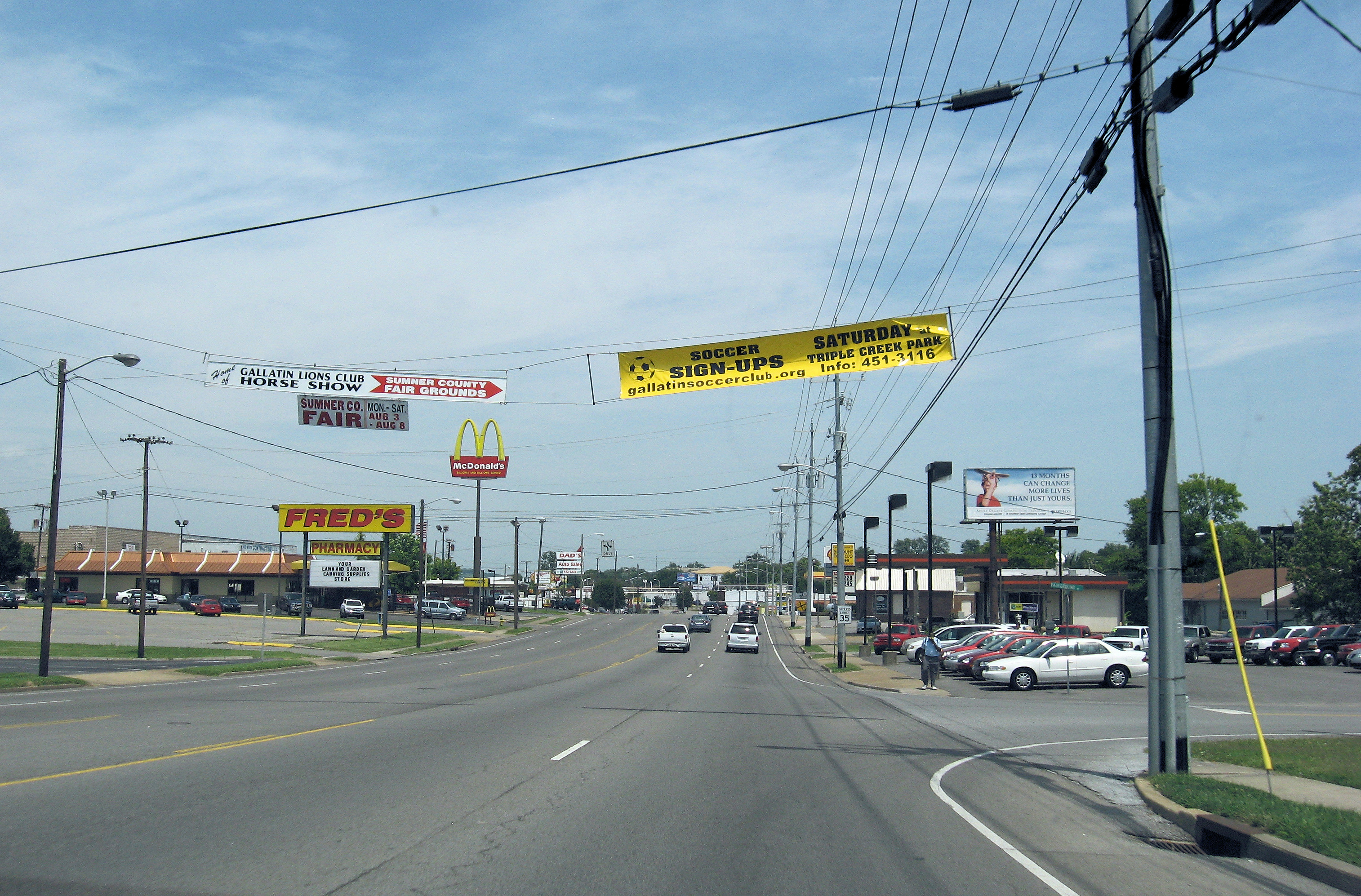 Downtown Gallatin, Tennessee (Gallatin, Tennessee, USA)